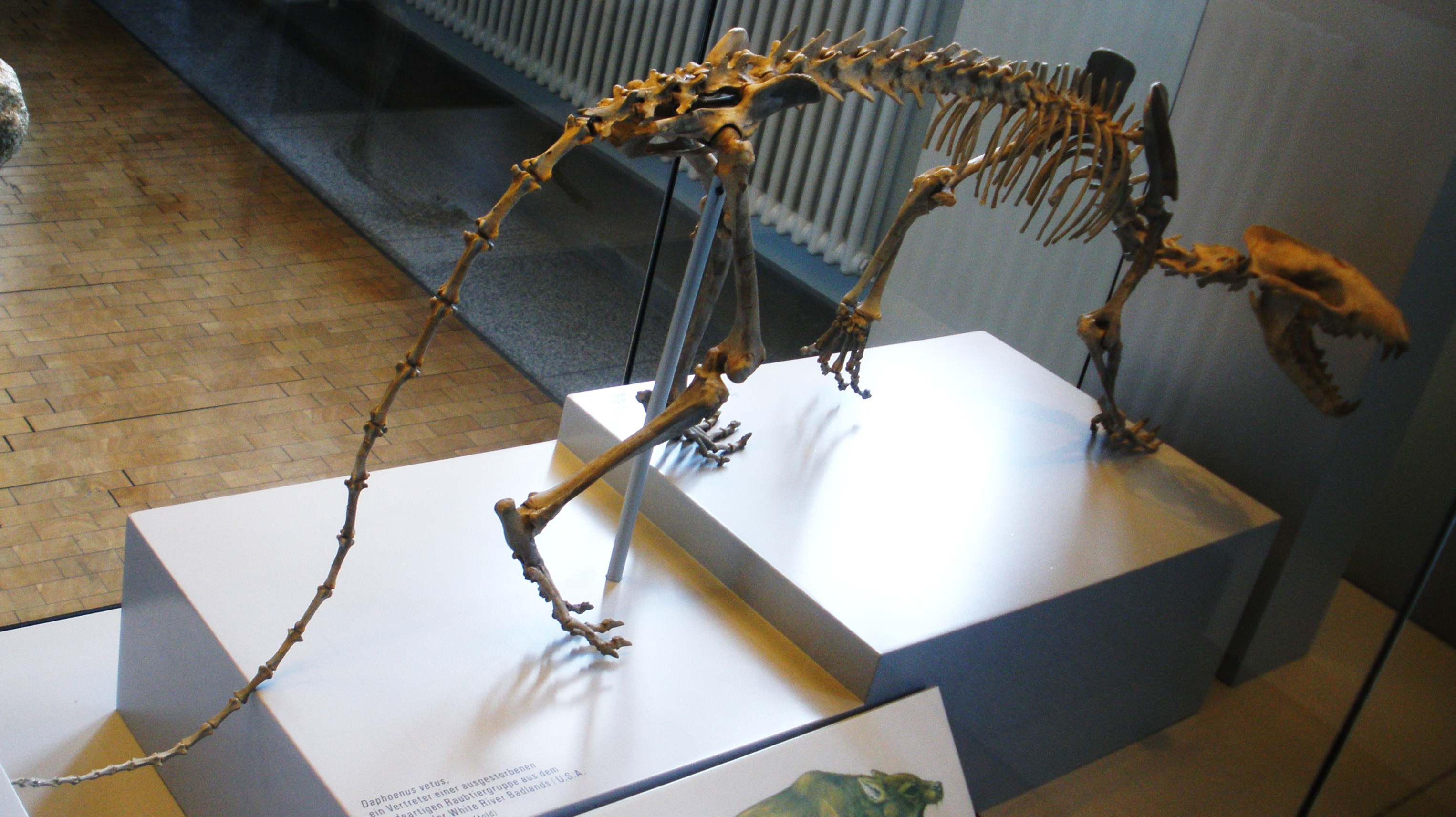 fossil Daphoenus vetus